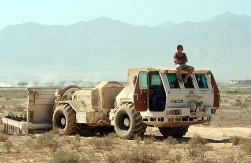 Spc. Adam Augusta, from the U.S. Army’s 769th Engineers from Louisiana, waits for further instructions over the radio for clearing dangerous areas with the Hydrema mine clearing vehicle at Bagram Air Base in Afghanistan. Augusta halted operations due to aircraft operating in the vicinity. The Hydrema cannot operate at the same time as air operations because of the dust it creates. August 2002Dansk: Hydrema minerydder får en pause i Bagram Air Base i Afghanistan, da minerydningen frembringer så meget støv at det generer lufttrafikken